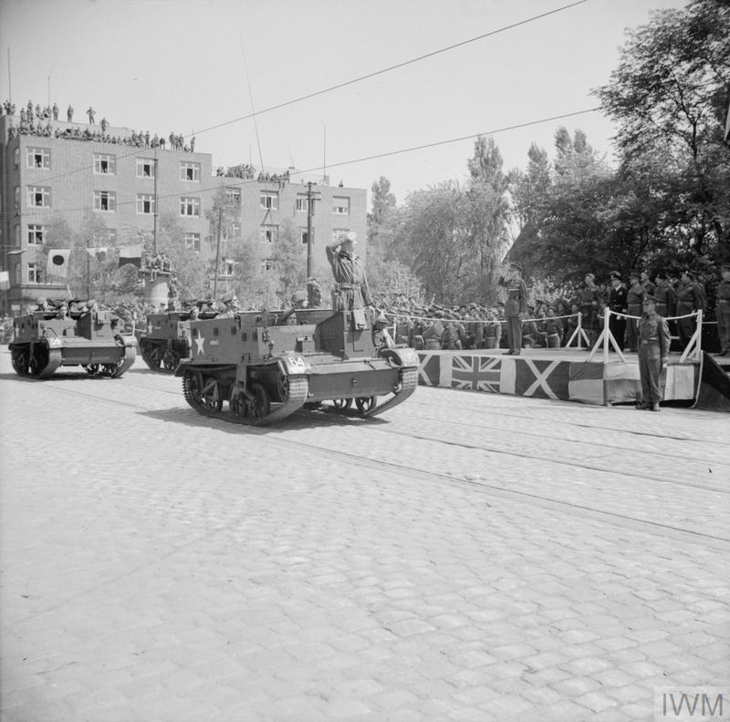 51st (Highland) Division holds a victory parade in Germany. Bren carriers parading past the saluting base.